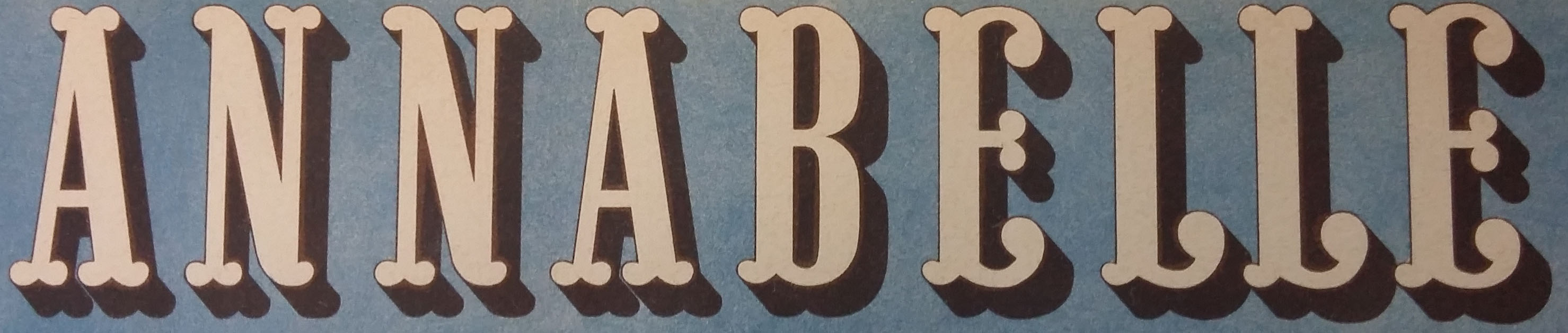 First logo of the Swiss Mazine Annabelle